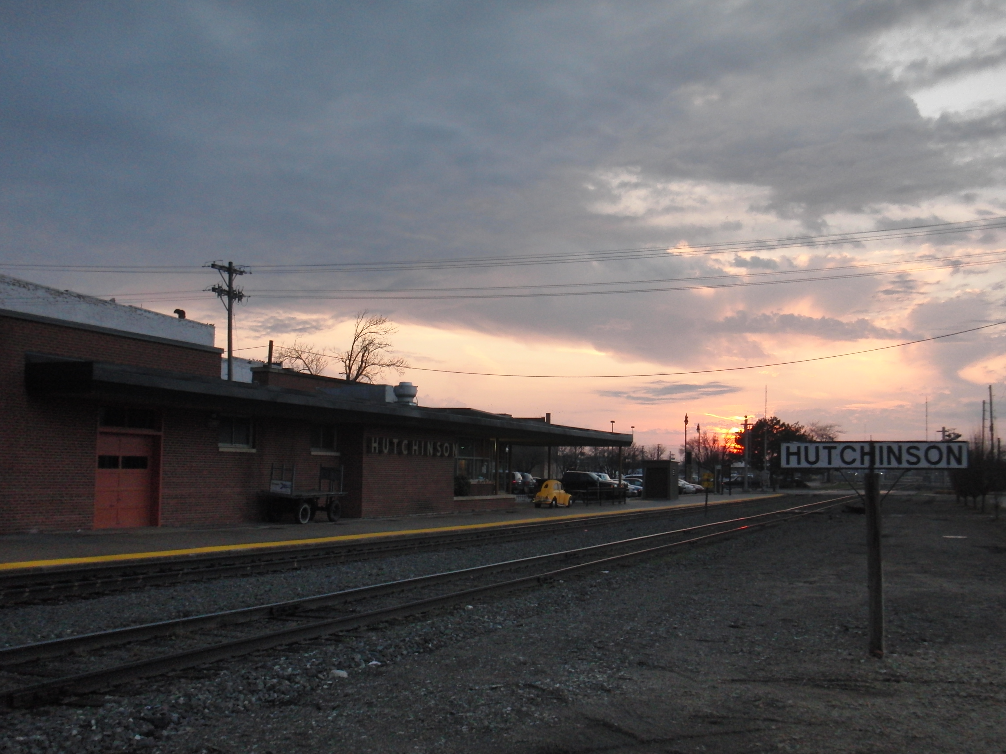 The Amtrak station in Hutchinson, Kansas. The thin yellow VW Bug belongs to Cool Beans, a restaurant in the depot building.